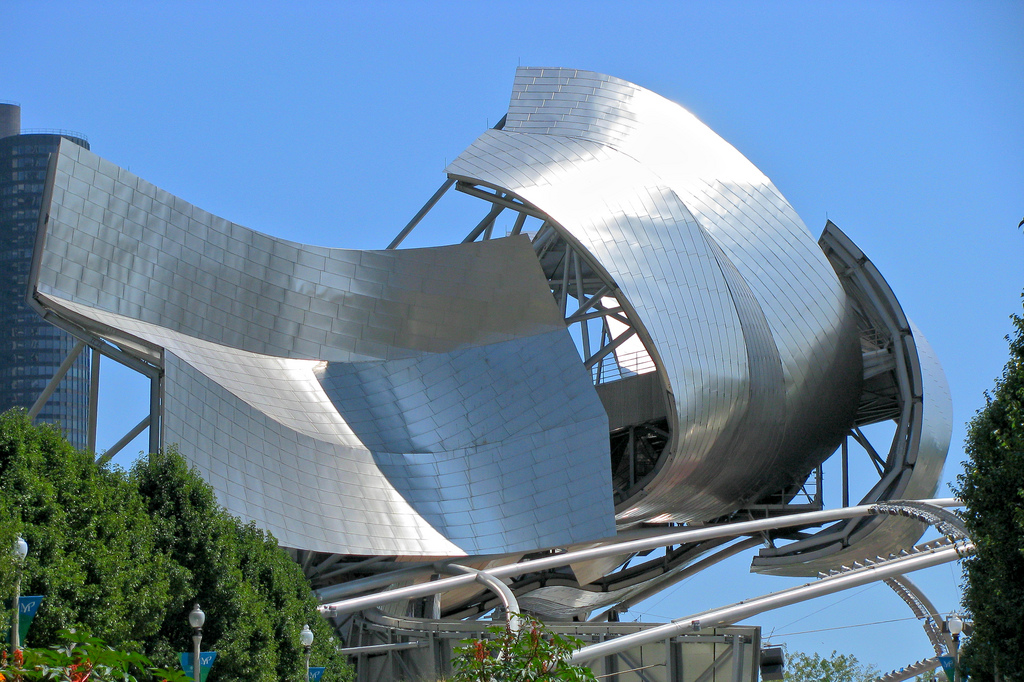 Jay Pritzker Pavilion — at Millennium Park in Chicago, Illinois.